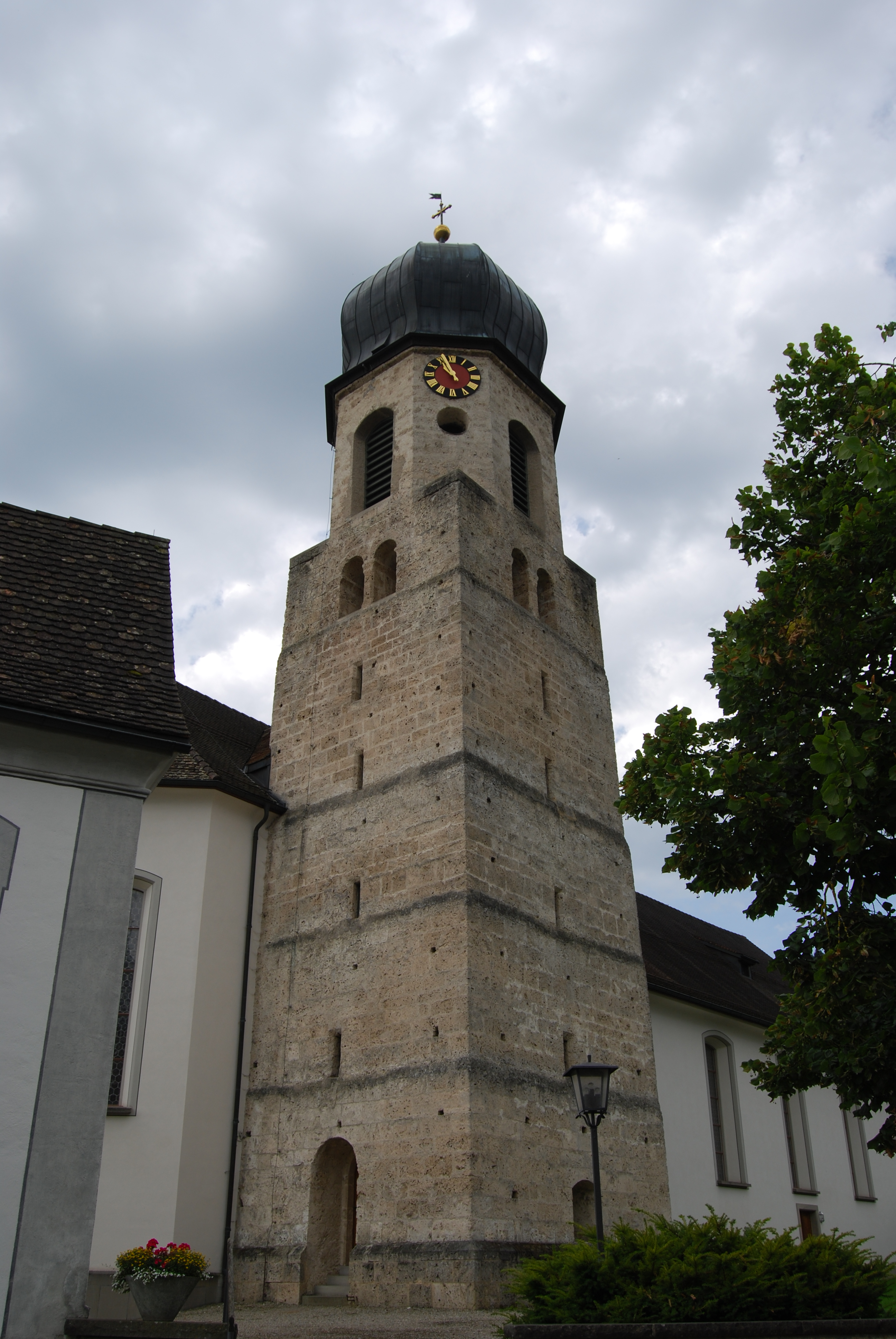 Church of Mosnang, canton of St. Gallen, Switzerland